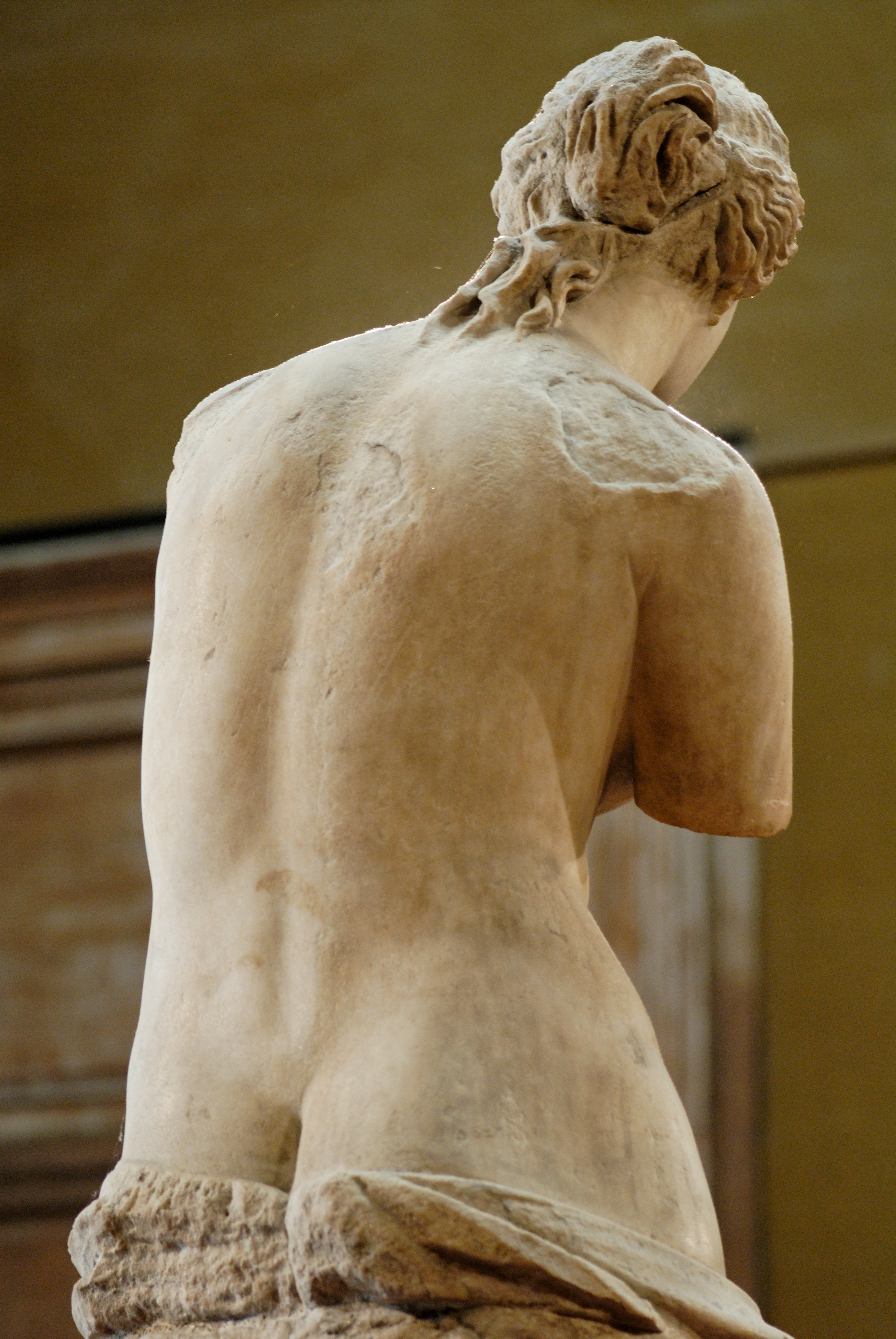 So-called “Venus de Milo” (Aphrodite from Melos). Parian marble, ca. 130-100 BC? Found in Melos in 1820.